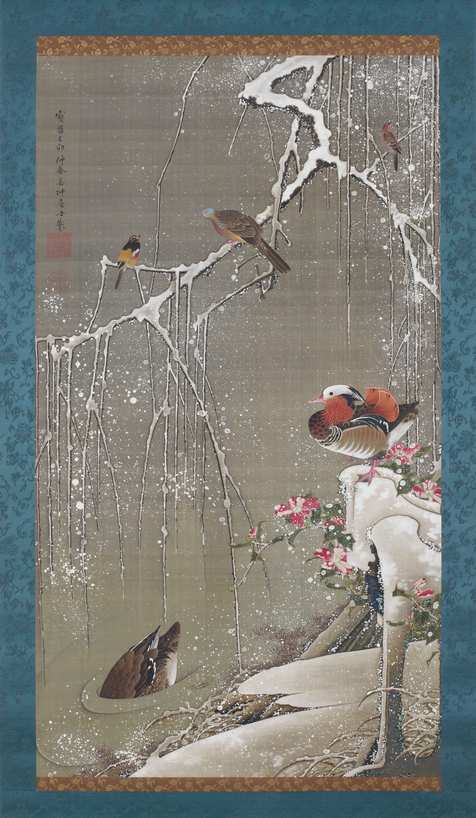 Mandarin Ducks in Snow from the Colorful Realm of Living Beings